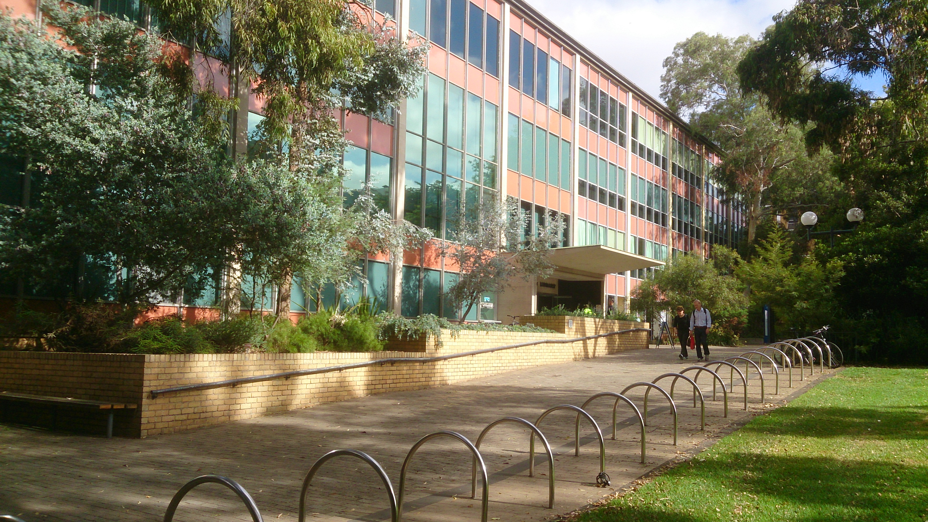 Baillieu Library in Parkville Campus of The University of Melbourne. January, 2014